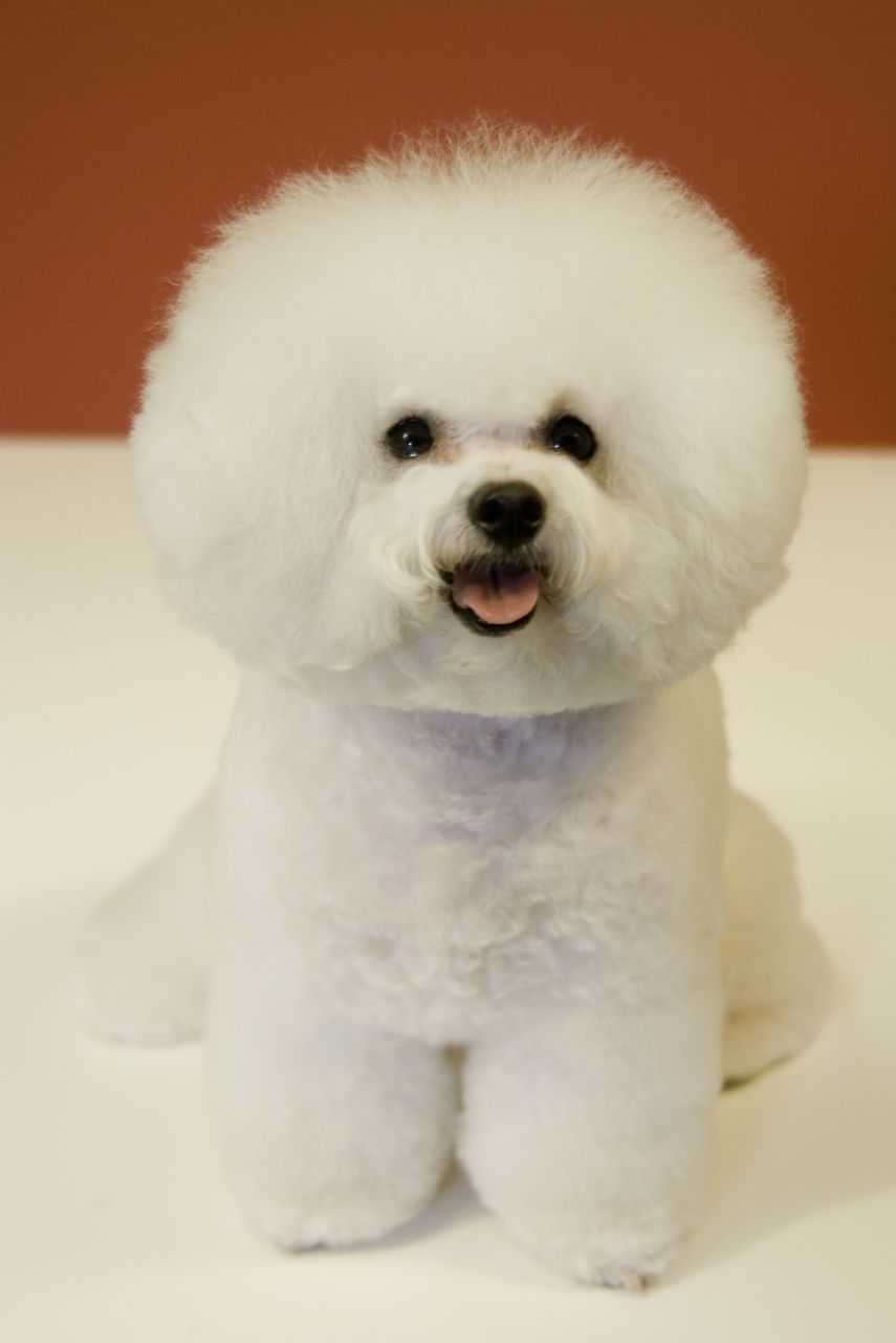 A female Bichon Frise named Bel Air.Bel Air -Red Background-DSC_6008